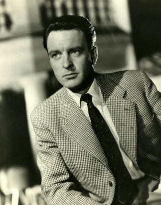 press photo of Donald Sinden